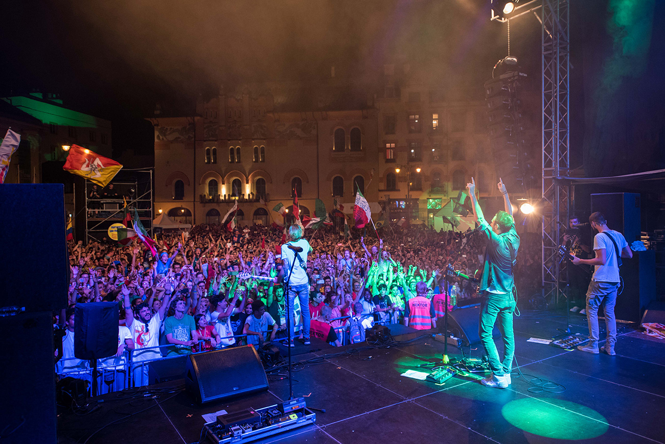 Performance live dei The Sun @ Piazza Szczepanski a Cracovia (Polonia)